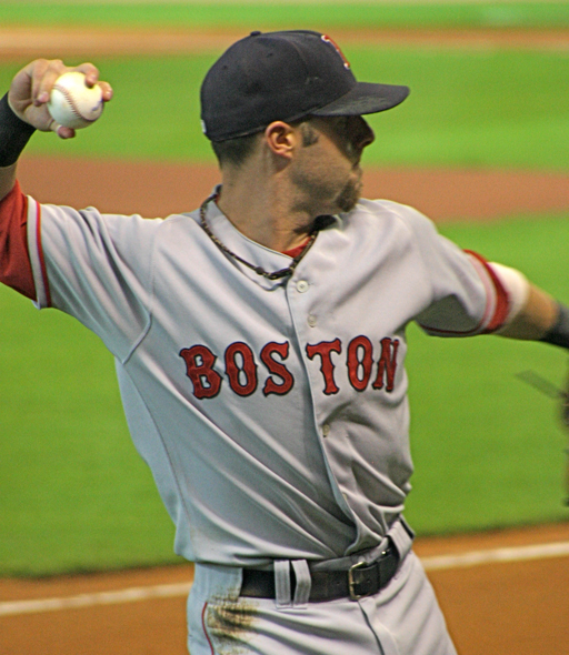 Description Cropped version of File:DPedroia.jpg DateJune 27, 2008SourceFile:DPedroia.jpgAuthorCropped by Killervogel5 17:42, 19 March 2009 . . Killervogel5 . . 512×590 (277 KB) Cropped version of File:DPedroia.jpg